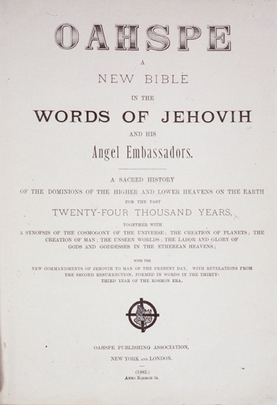 1882 first edition title page for "Oahspe: A New Bible" by Dr. John Ballou Newbrough (1828–1891), self-published in New York and London